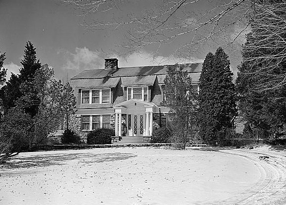 Frederick Remington House, Ridgefield (Fairfield County, Connecticut). 1967 photo from the HABS—Historic American Buildings Survey of Connecticut (cropped).